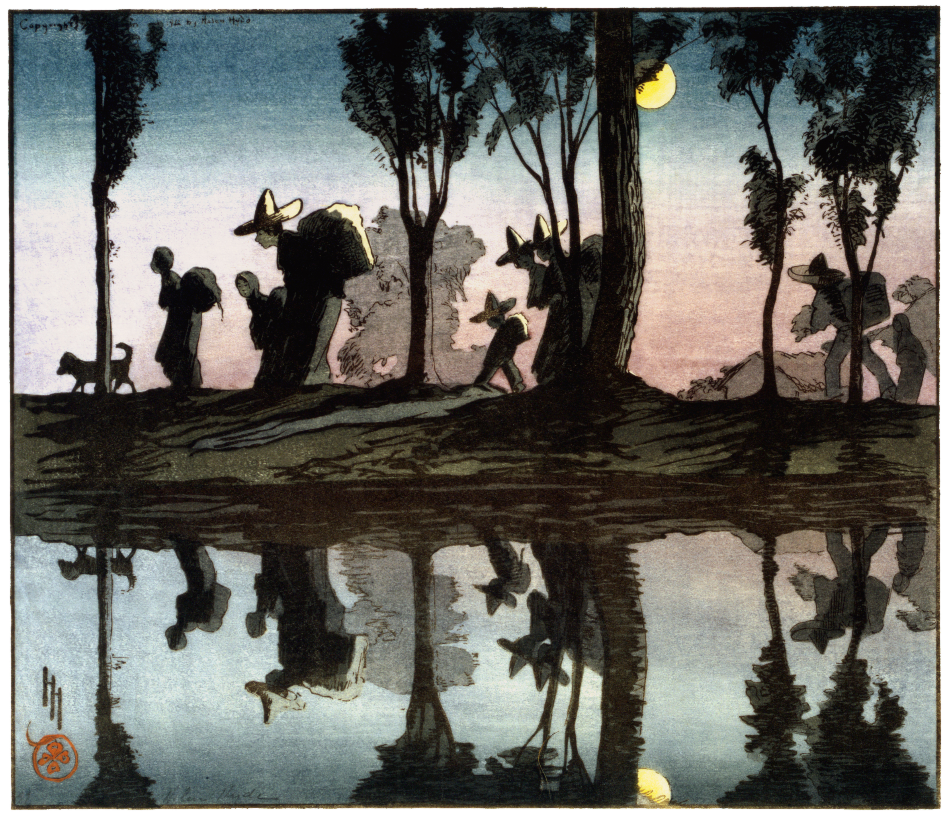 "Moonlight on the Viga Canal" (location in Mexico), color woodcut print on white wove tissue paper